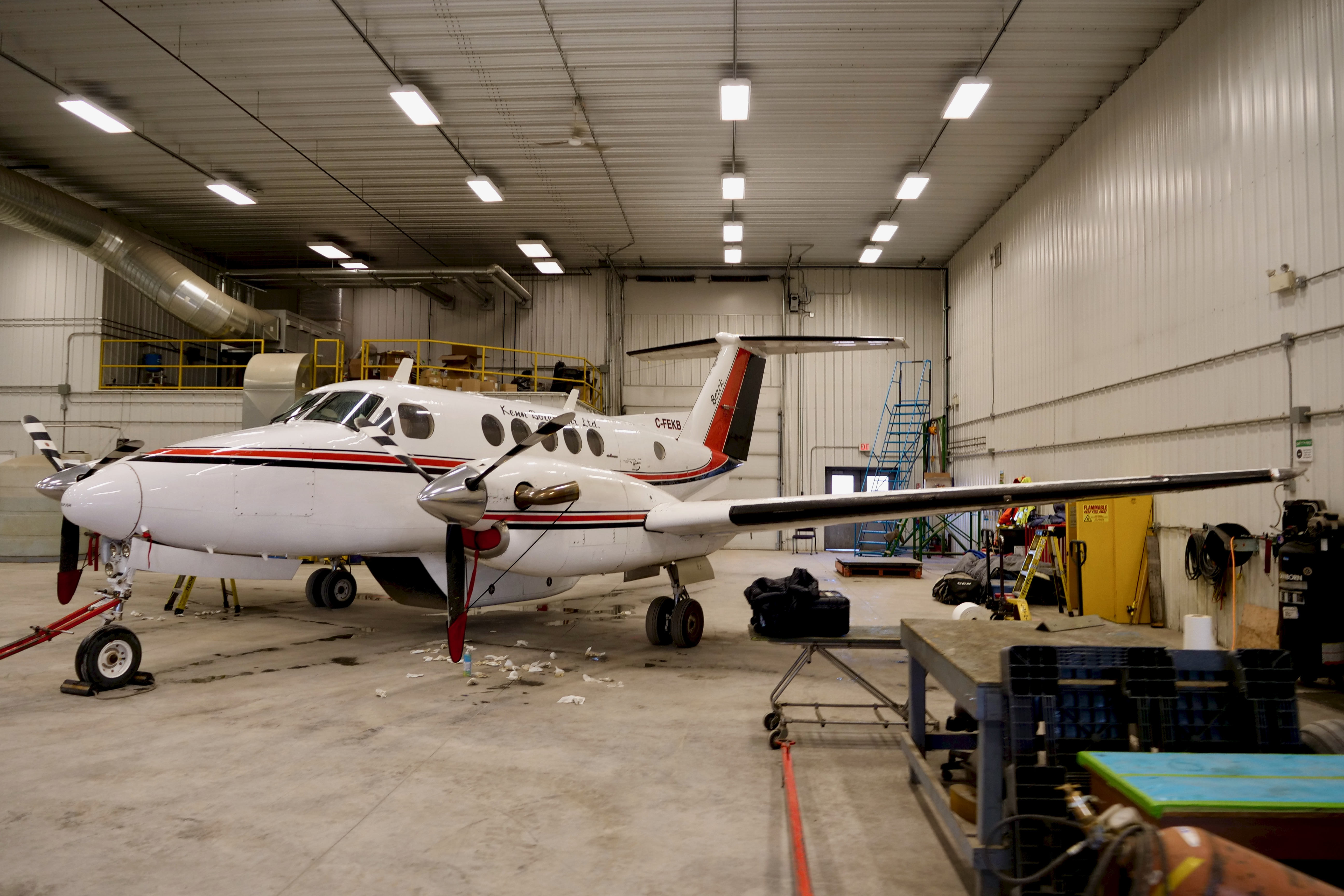 One of Kenn Borek Air's King Air 200s in Inuvik.